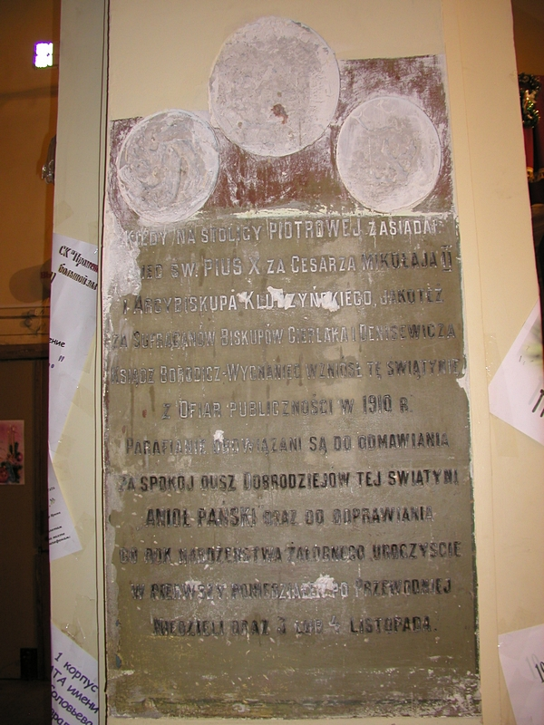 Memorial table in Rybinsk Koscol